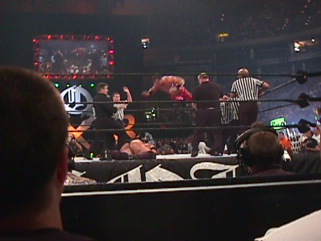 Chris Benoit and Rikishi at the WWF King of the Ring at the Fleet Center in Boston, MA in 2000 - WWE. Mr. Benoit was later disqualified from the match after attacking Rikishi with a steel chair!